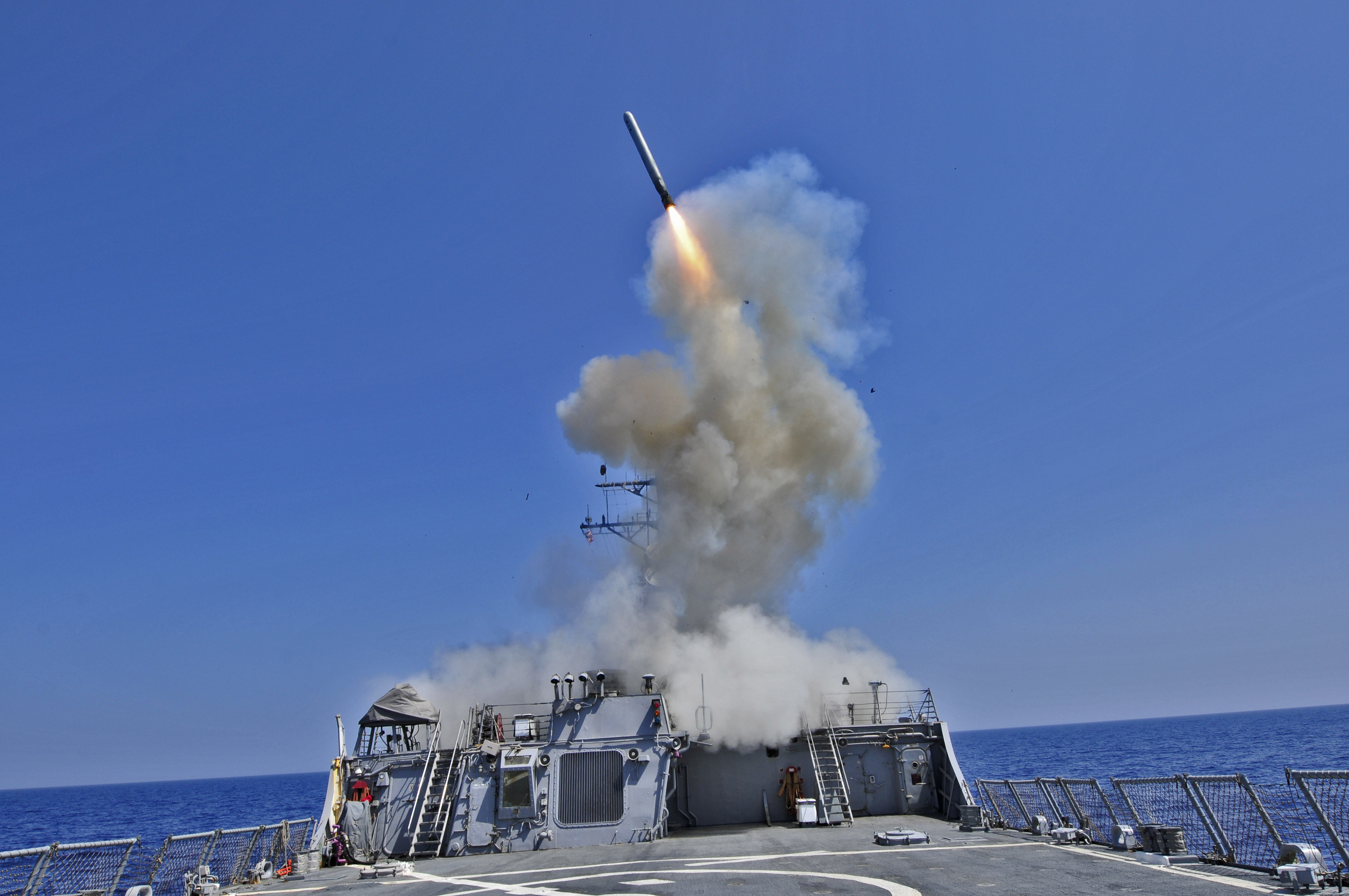 MEDITERRANEAN SEA (March 29, 2011) The Arleigh Burke-class guided-missile destroyer USS Barry (DDG 52) launches a Tomahawk cruise missile to support Joint Task Force Odyssey Dawn. Odyssey Dawn is the U.S. Africa Command task force established to provide operational and tactical command and control of U.S. military forces supporting the international response to the unrest in Libya and enforcement of United Nations Security Council Resolution (UNSCR) 1973. (U.S. Navy photo by Mass Communication Specialist 3rd Class Jonathan Sunderman/Released)